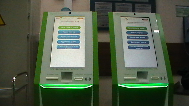 ЕМИАС терминал